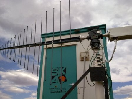 This is an automatic wideband radio "scanner" system. It was originally used to survey the radio frequency noise levels at the various candidate sites. Once Kat7/MeerKAT/SKA is running it will be used to detect, identify and locate violations of the radio exclusion zone.